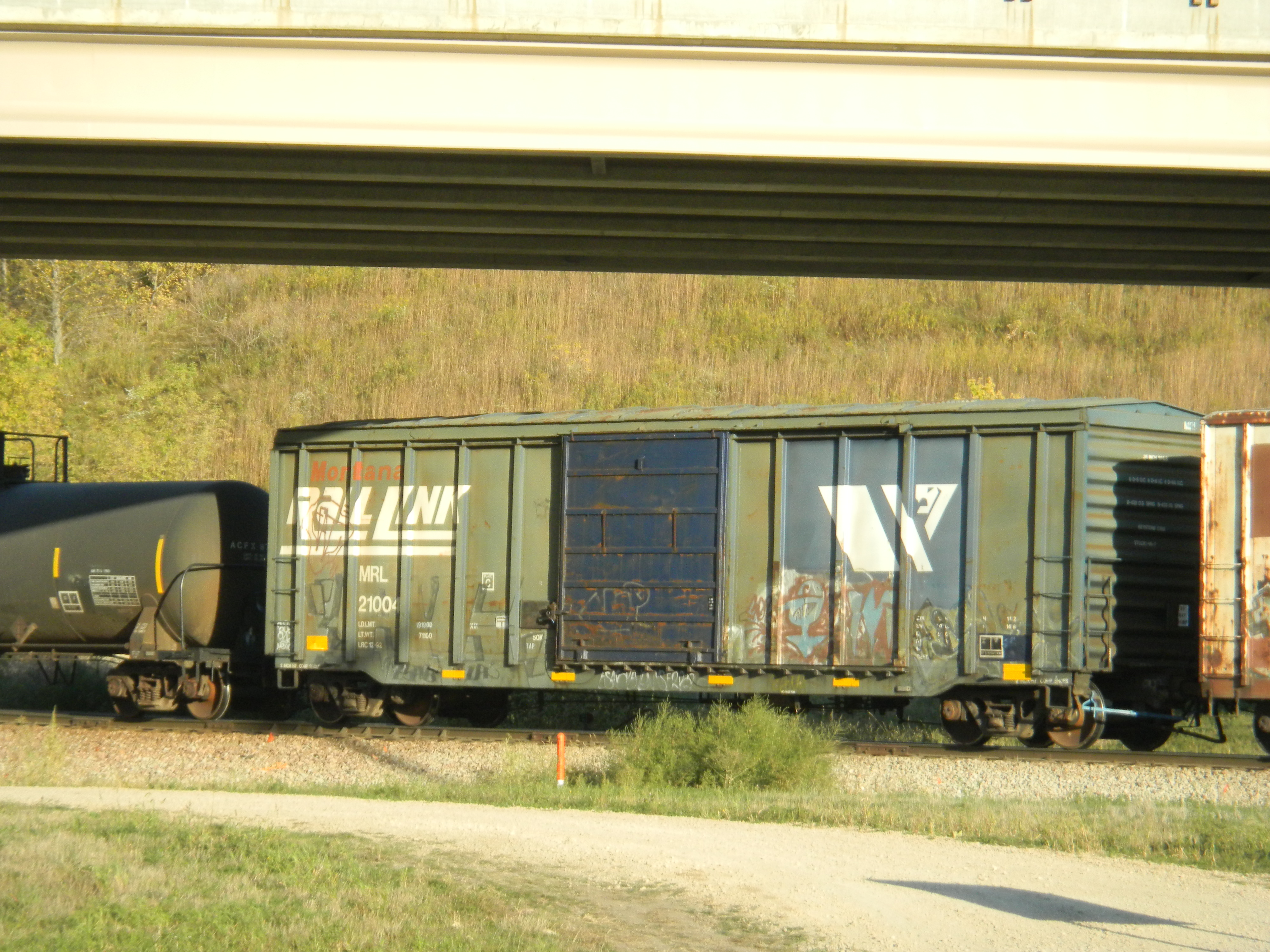 Montana Rail Link boxcar on the CRANDIC